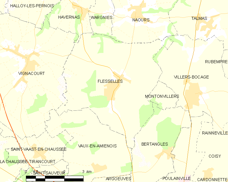 Map of French municipality Flesselles